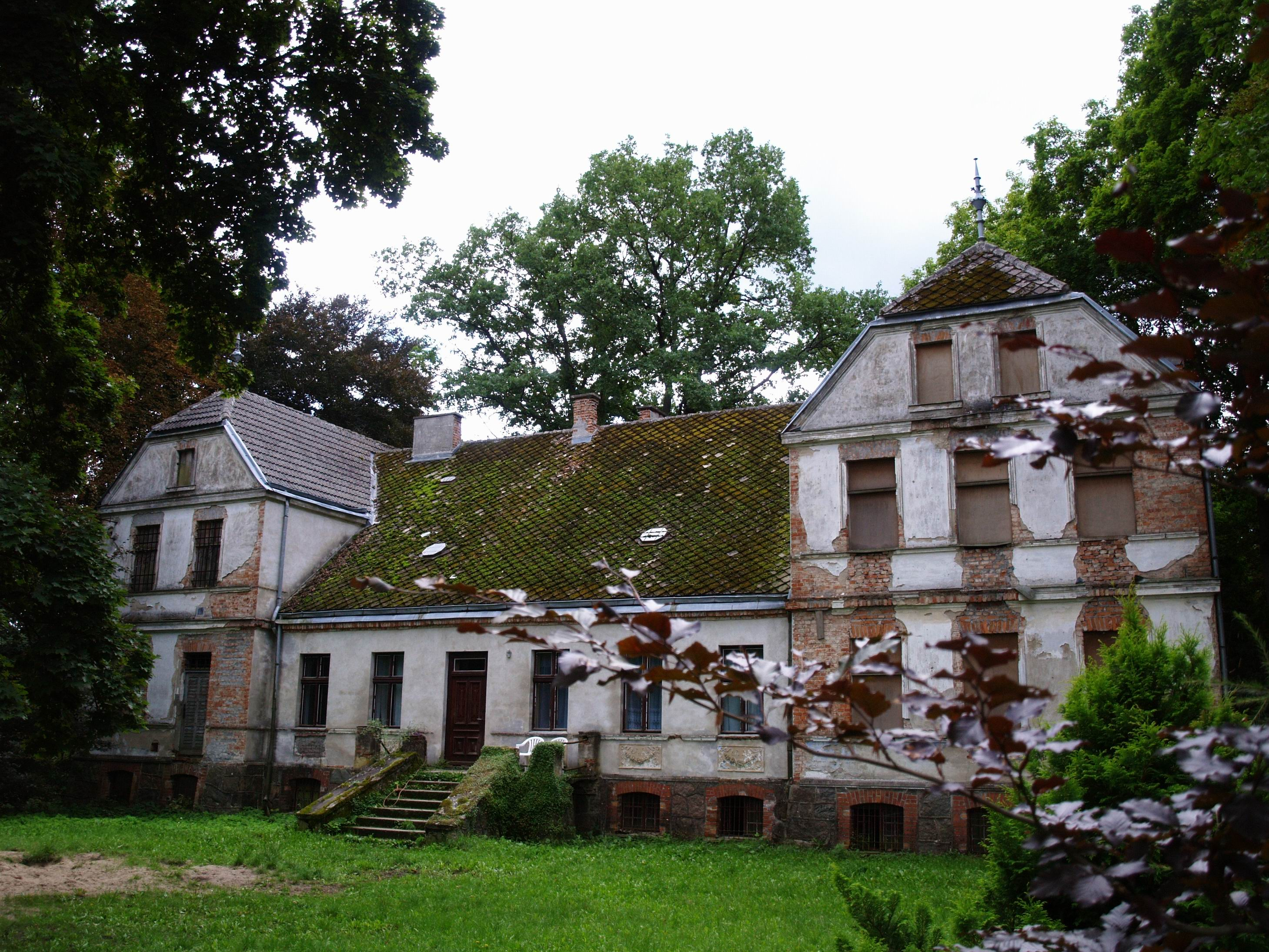 Manor in Okole